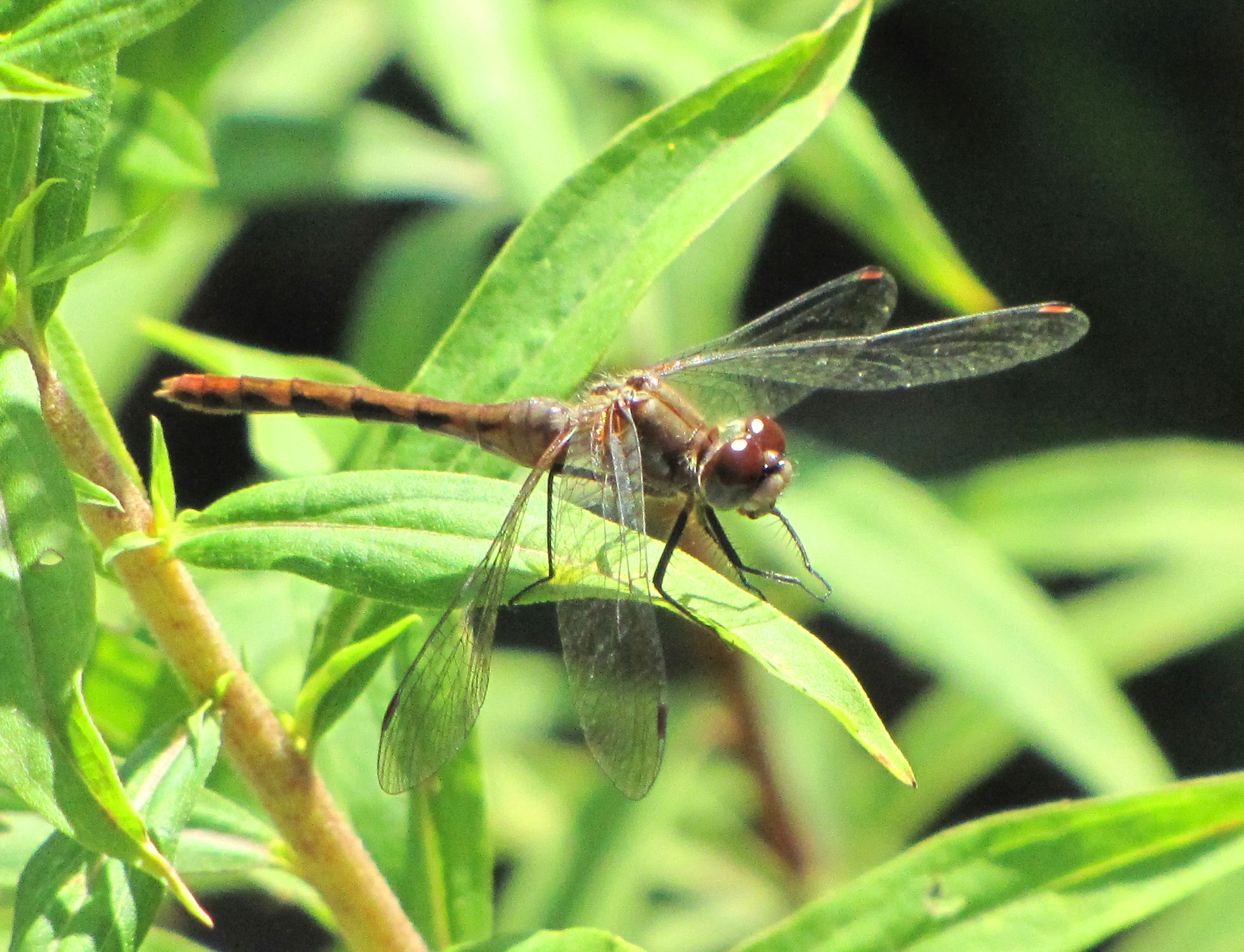 White-faced Meadowhawk (Sympetrum obtrusum), female, Ottawa, Ontario